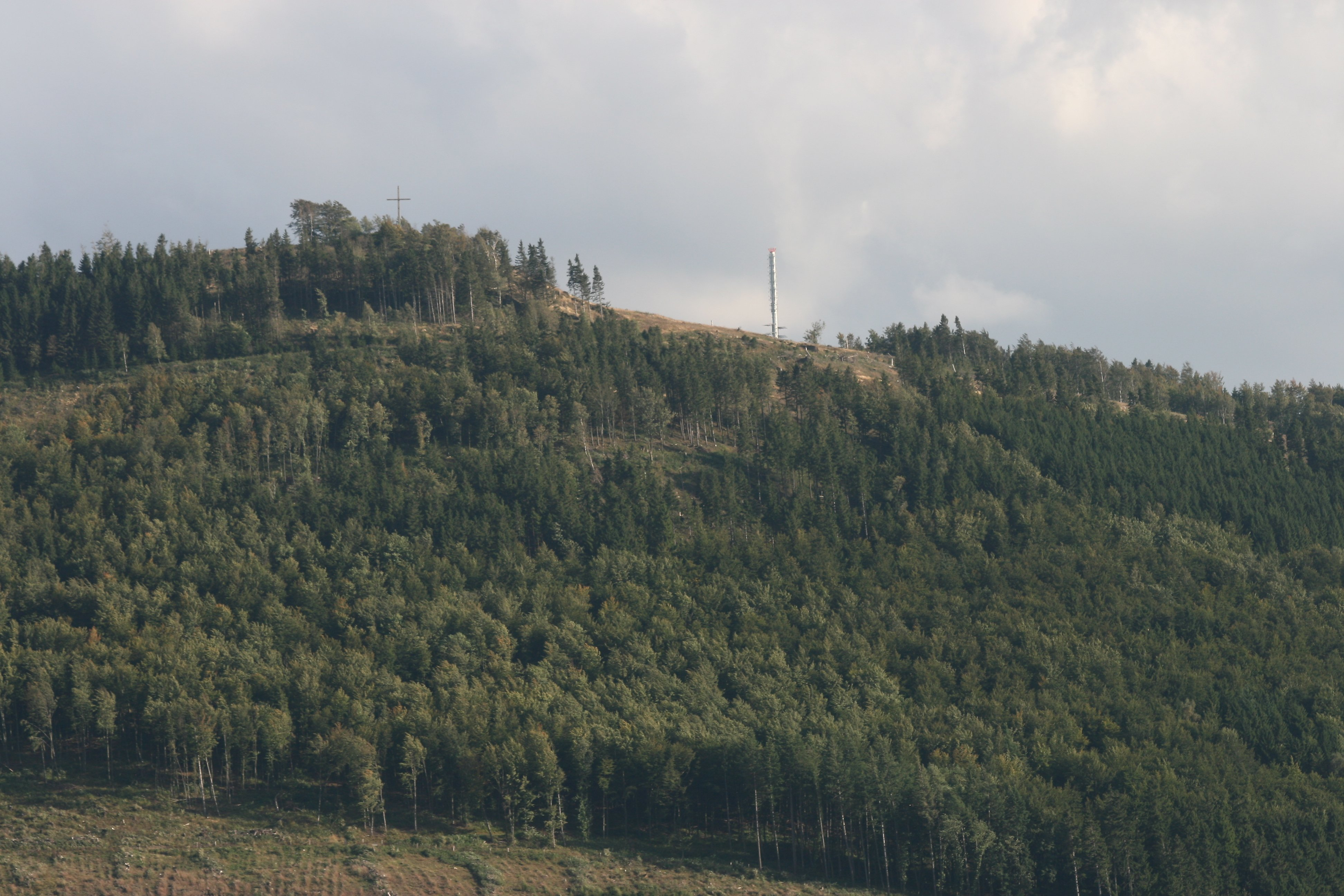 Mountain Olsberg near town Olsberg in Germany